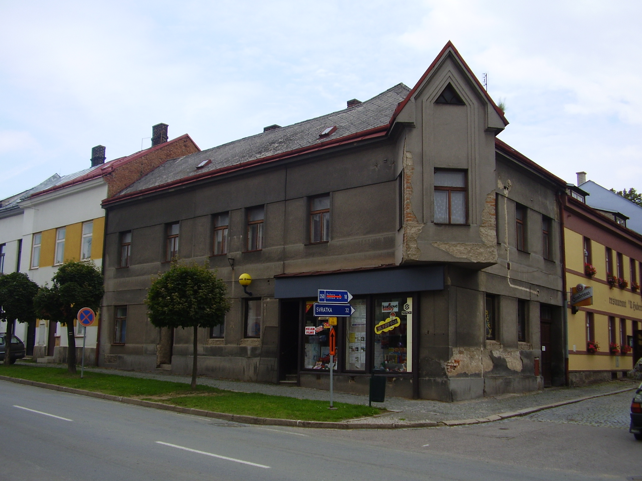 Disused police station in Přibyslav in rently top level building of family Vokurka. Přibyslav, Bechyňovo sqr.